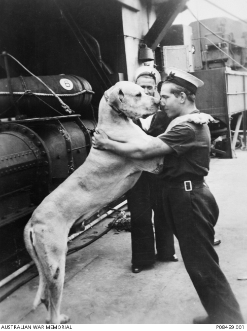 A portrait of a Great Dane and an unidentified Serviceman from. NX18122 Warrant Officer Class 1 (WO1) Darrell Noel Anderson wrote on the verso "This picture was taken in Cape Town. The dog is known to all the naval chaps as he takes them home when they are drunk. He pulls them along the street. He comes from a town outside Cape Town he gets on the train himself and goes home with drunk sailors." It is possibly the same dog as that pictured in P07849.005 and P07849.006.